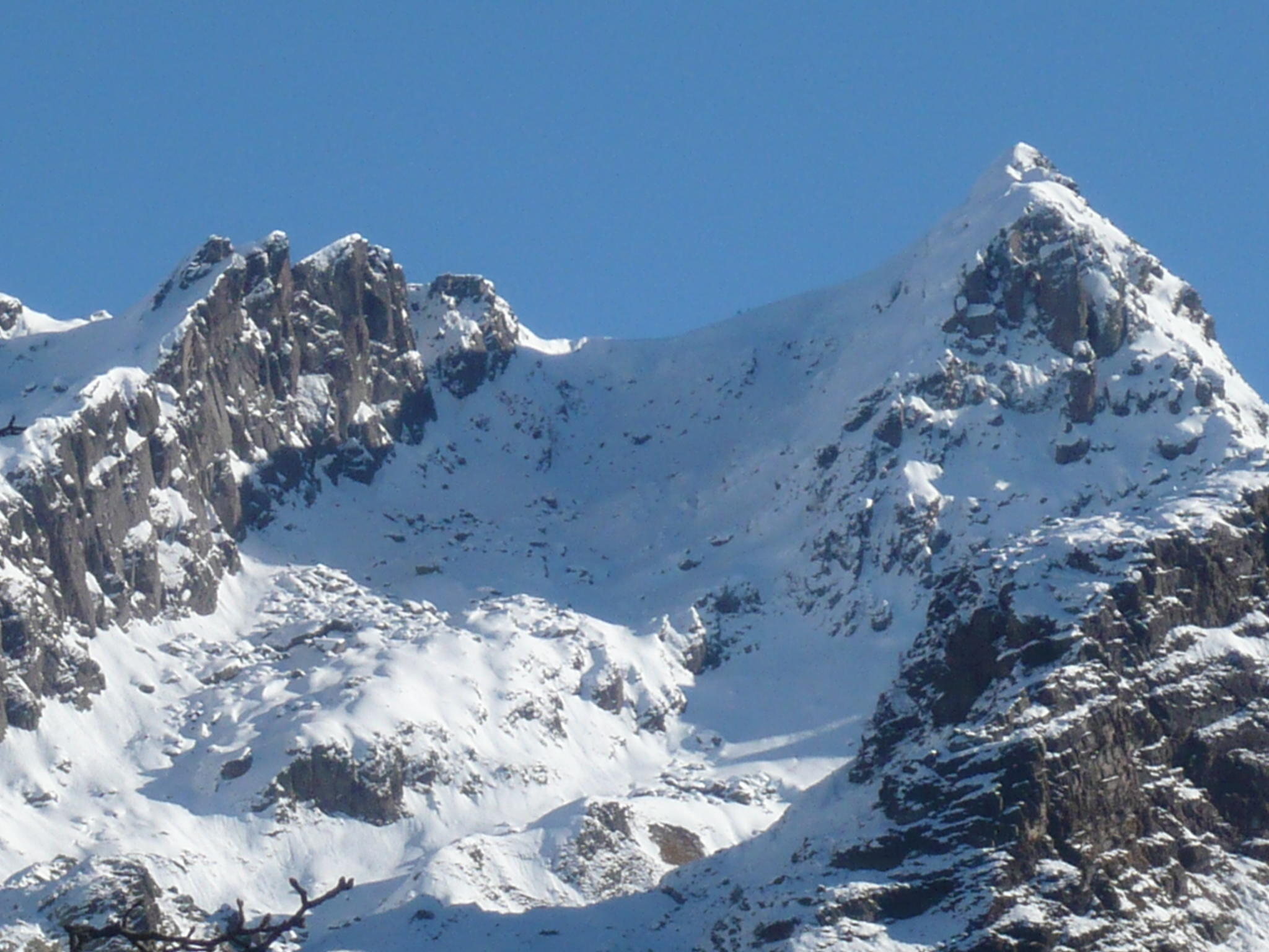 Pizzo dei 3 signori from Biandino valley (Valsassina)